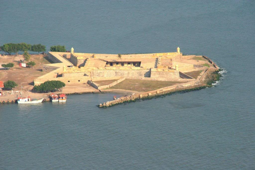 Castillo San Carlos de La Barra (also known as Fort San Carlos) in Zulia, Venezuela